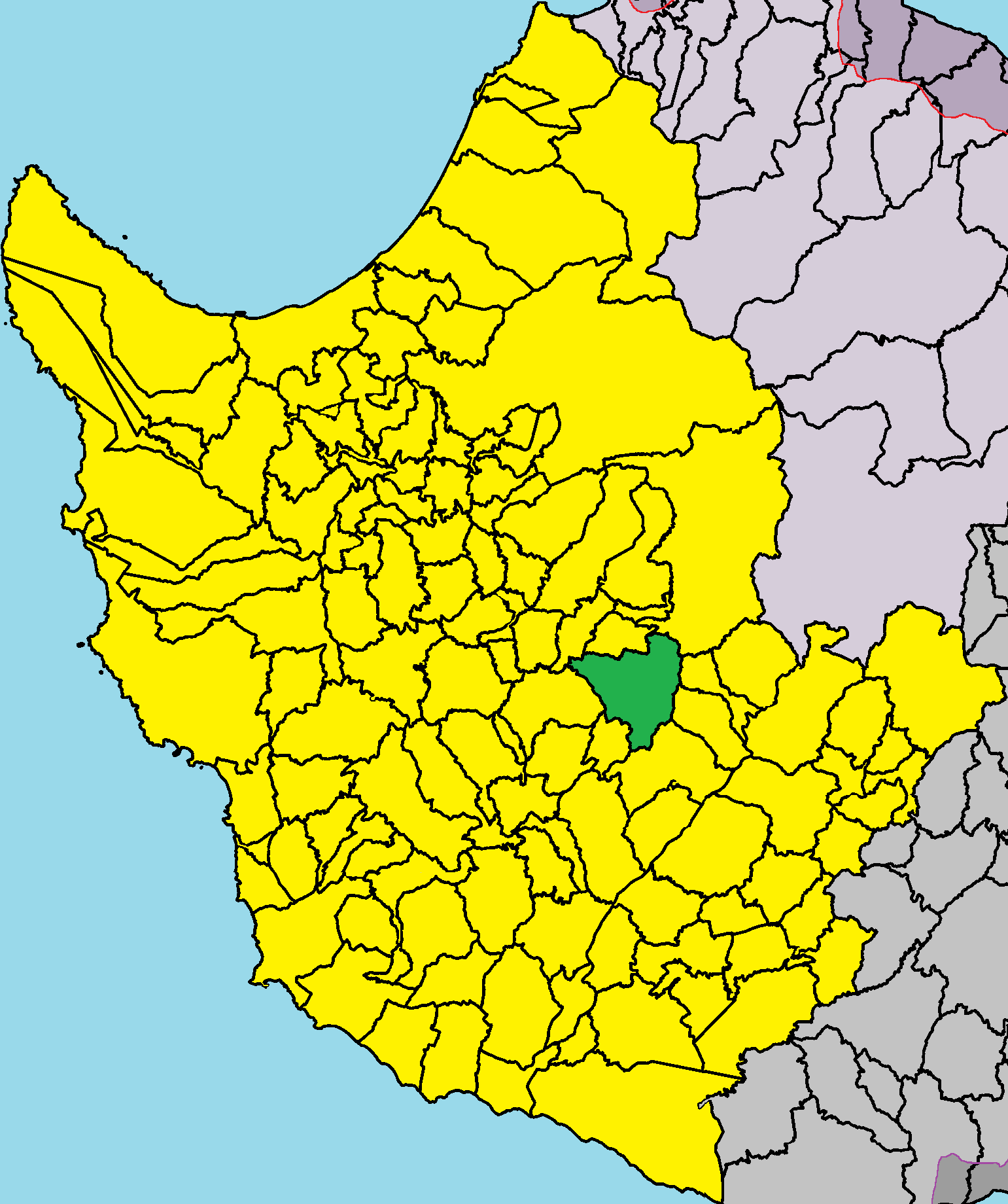 Statos–Agios Fotios in Paphos District.